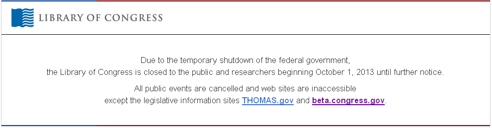 Federal government shutdown message displayed when trying to visit any Library of Congress website (e.g. or ) as of October 1, 2013.